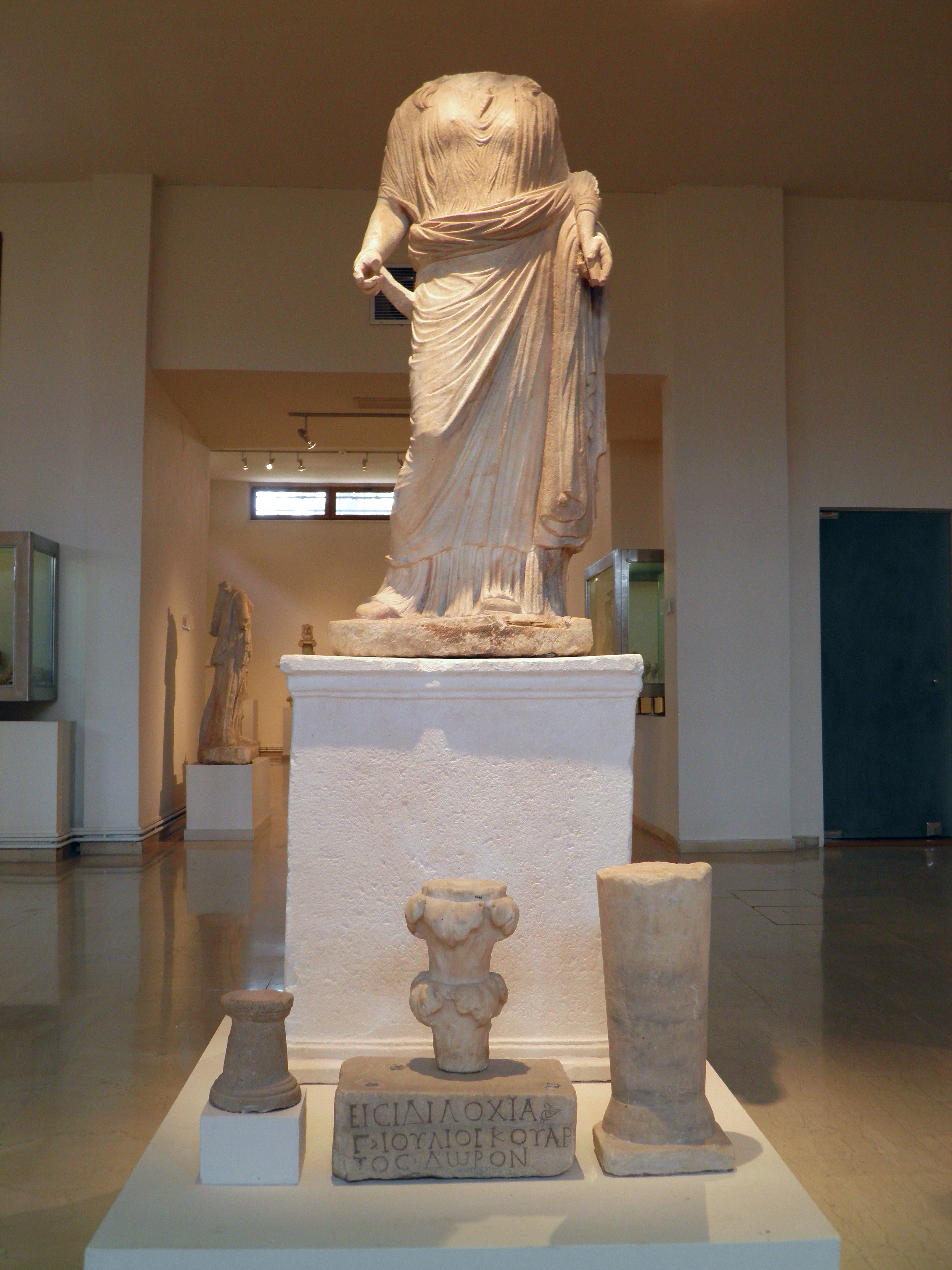 Cult statue of Isis Tyche and marble votives offerings, 2nd c. AD, Archaeological Museum, Dion